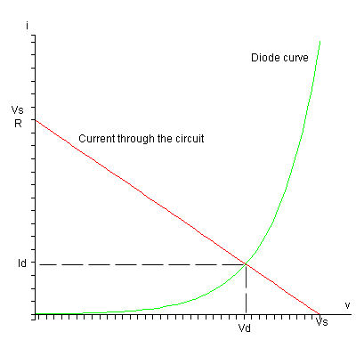 Author: Amr Bekhit